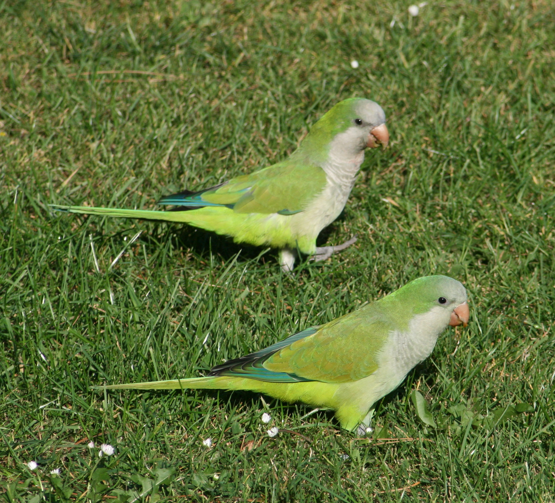 Free monk parakeets in a park in Brussels